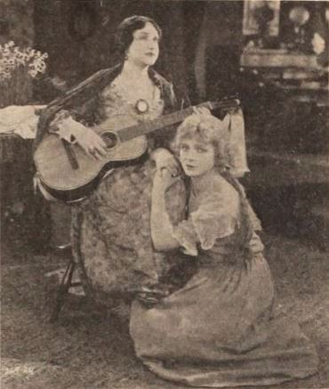 Still from the American drama film A Wise Fool (1921) with Alice Hollister and Ann Forrest, on page 38 of the August 6, 1921 Exhibitors Herald.